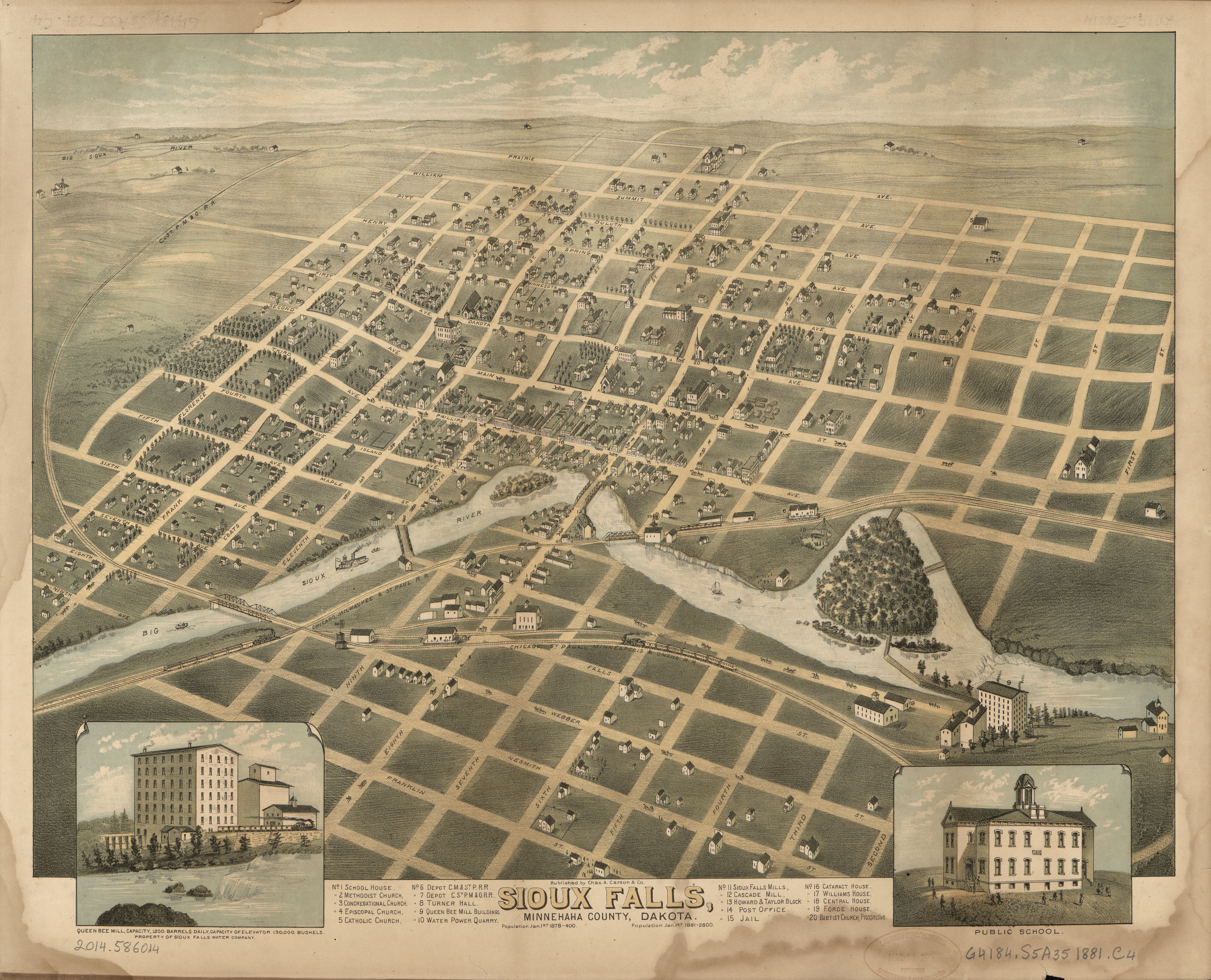 Bird's-eye-view. Relief shown pictorially. "Population Jan. 1st, 1878 - 400 -- Population Jan. 1st, 1881 - 2800." Includes index to points of interest and 2 color illustrations of local buildings. Available also through the Library of Congress Web site as a raster image. LC copy imperfect: Stained at edges. LC Panoramic maps (2nd ed.).